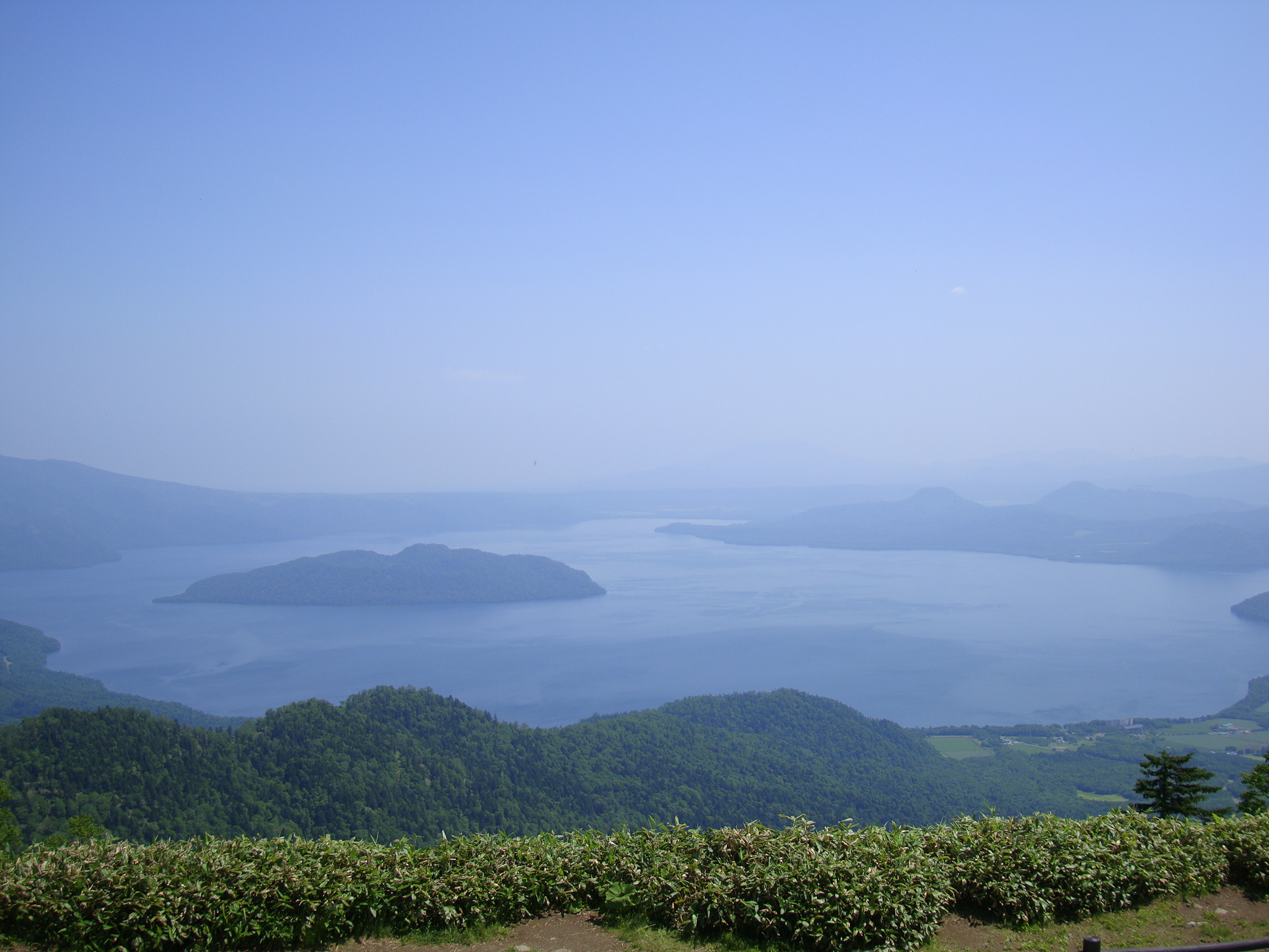 View of Lake Kussharo from Tsubetsu Mountain pass Observation deck